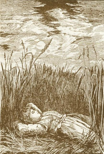 (Removed after reusableart request.)